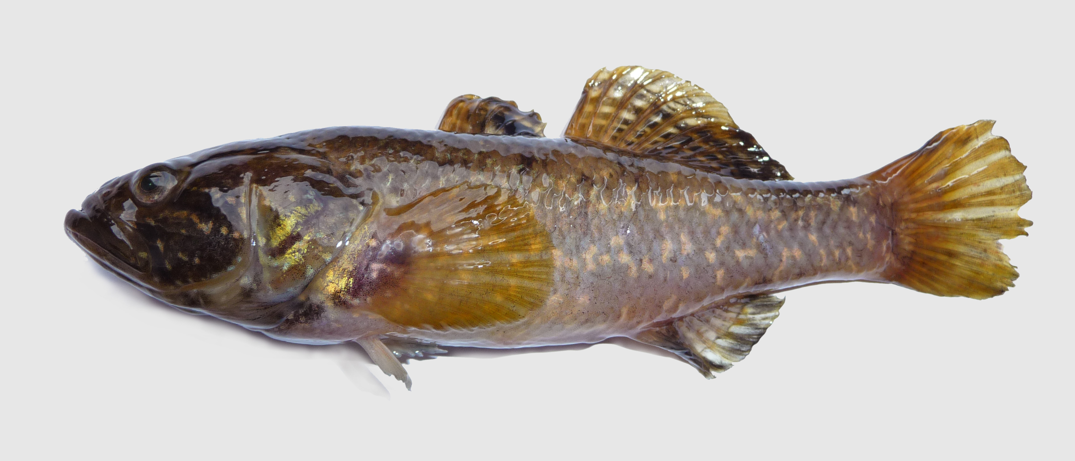 Chinese sleeper, Amur sleeper (Perccottus glenii) - freshwater fish of Odontobutidae family. Found in wild in Ukraine, near Vinnitsa (Vinnytsia) in 2009.